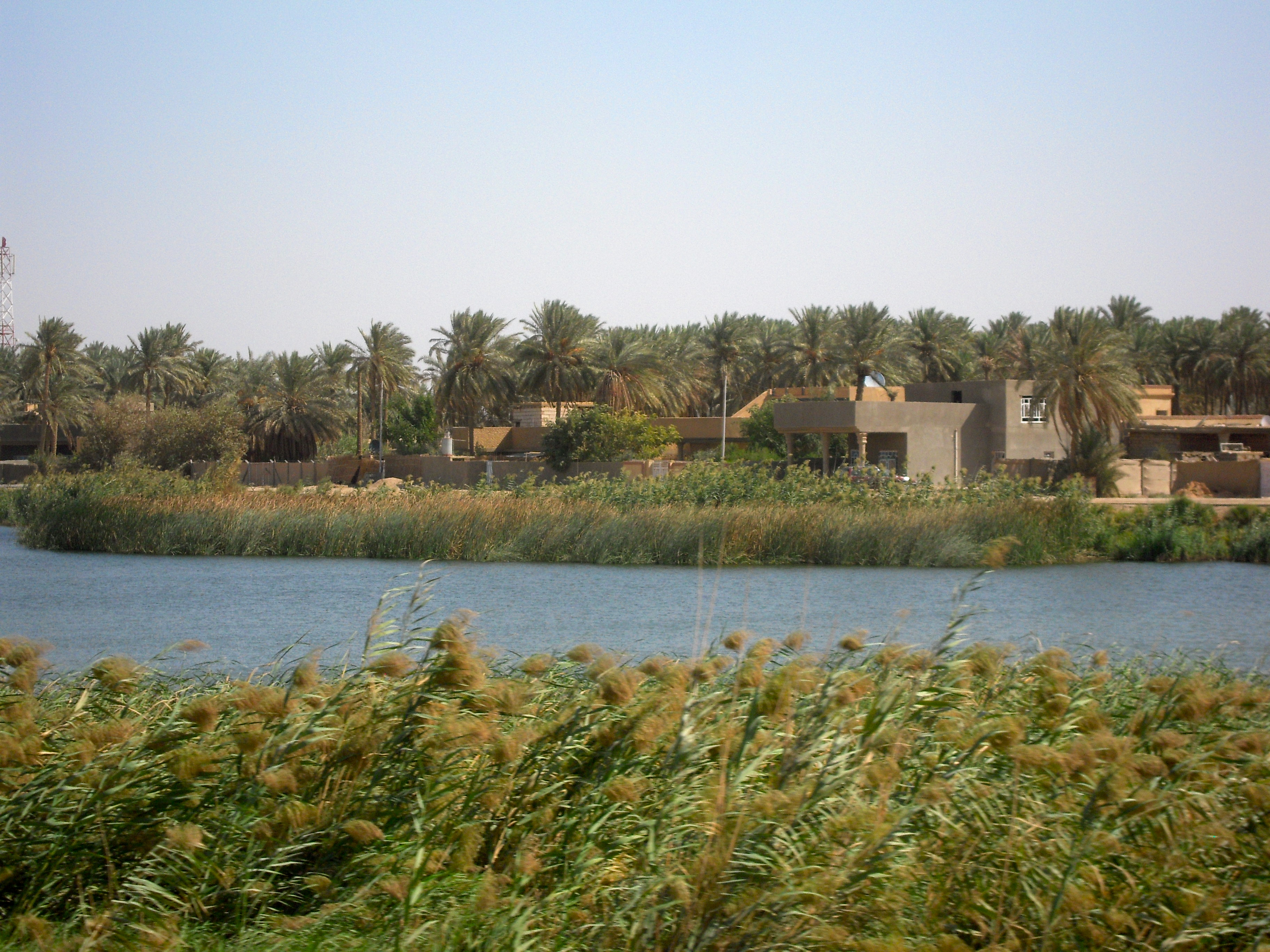 Date palms and the river at Hilla in Iraq